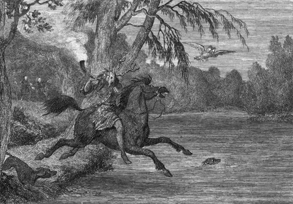 Illustration of Herne the Hunter